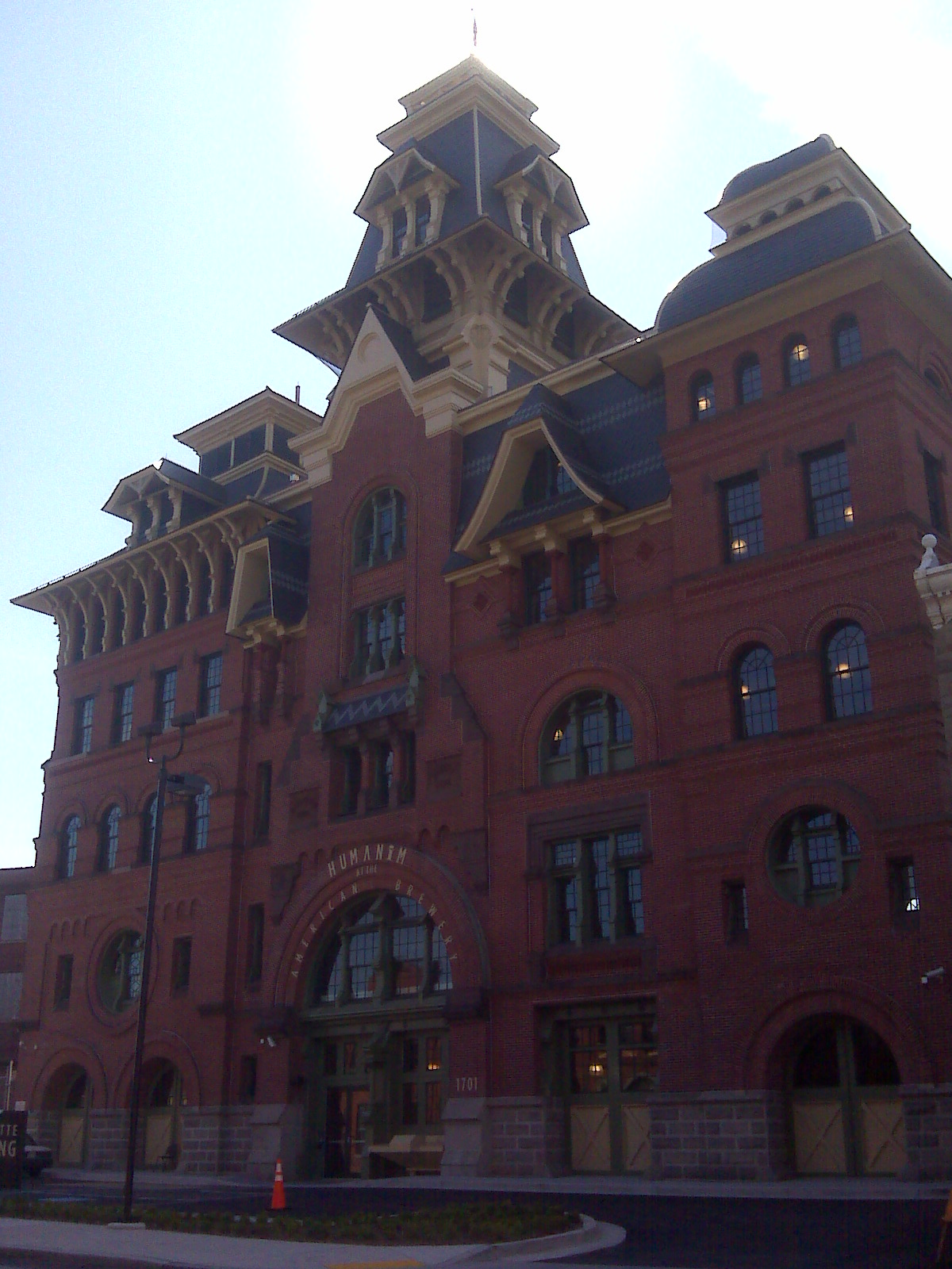 A view of the newly revitalized American Brewery front facade, in Baltimore, Maryland, taken in 2009 Summer.